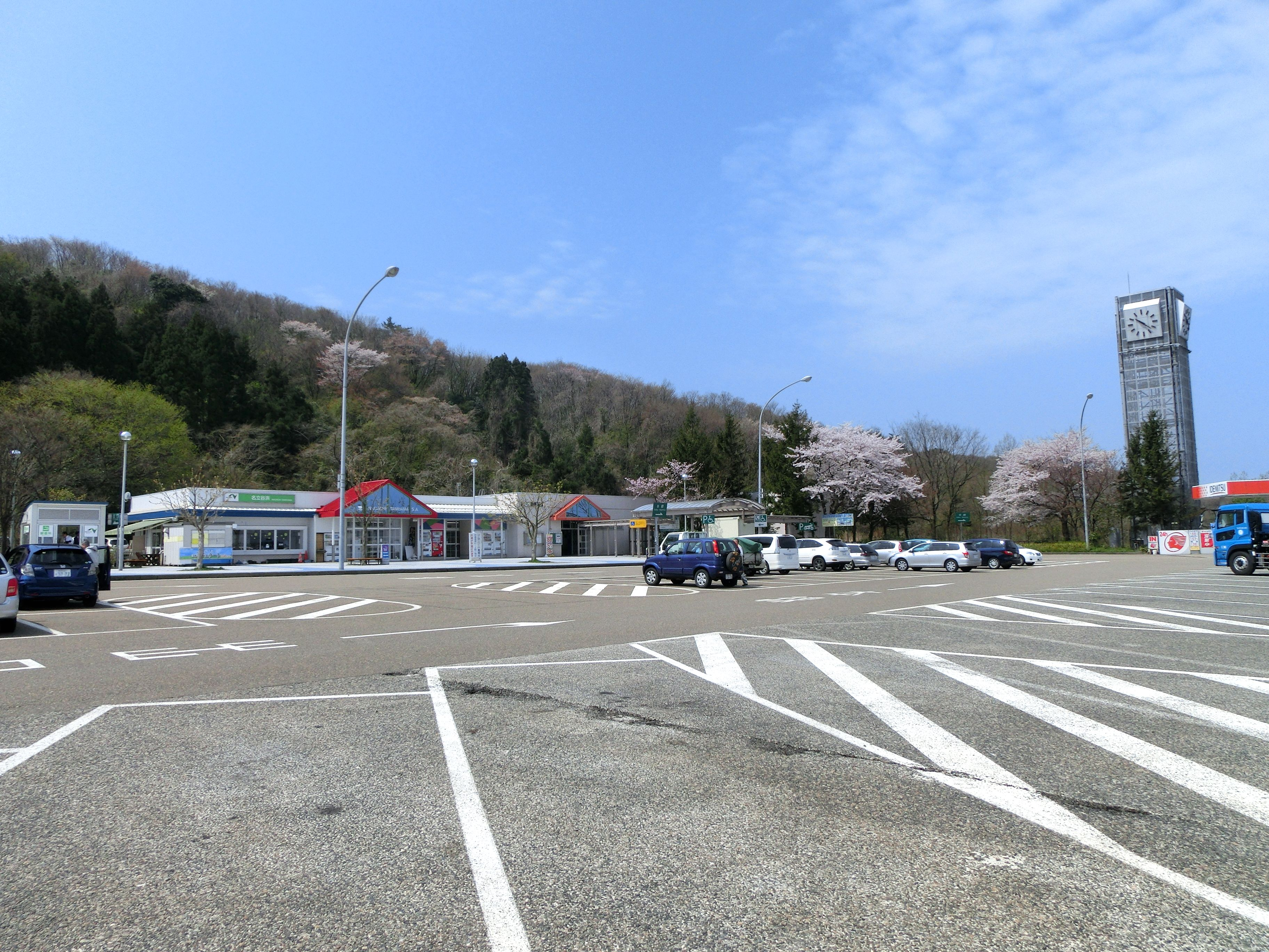 Nadachi Tanihama Service Area on the Hokuriku Expressway inbound line